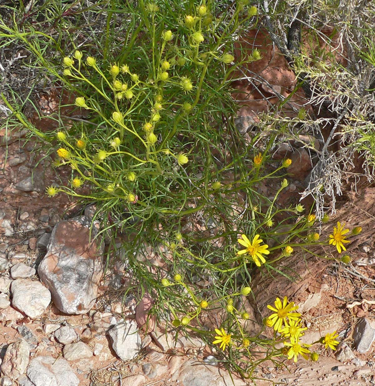 Photo of Senecio flaccidus in Red Rock Canyon, Nevada